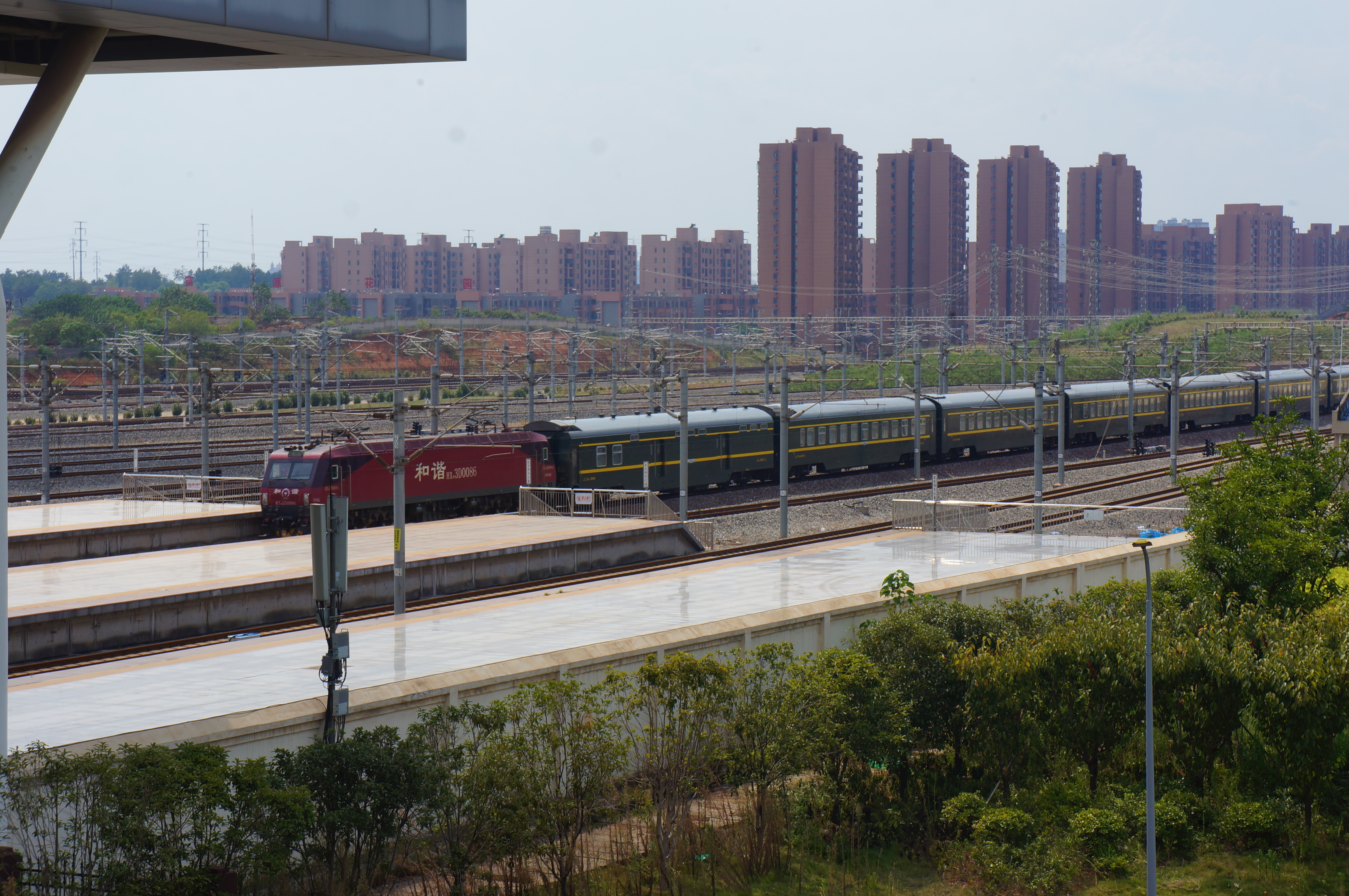 201608 Z103 enters into Nanchangxi Station